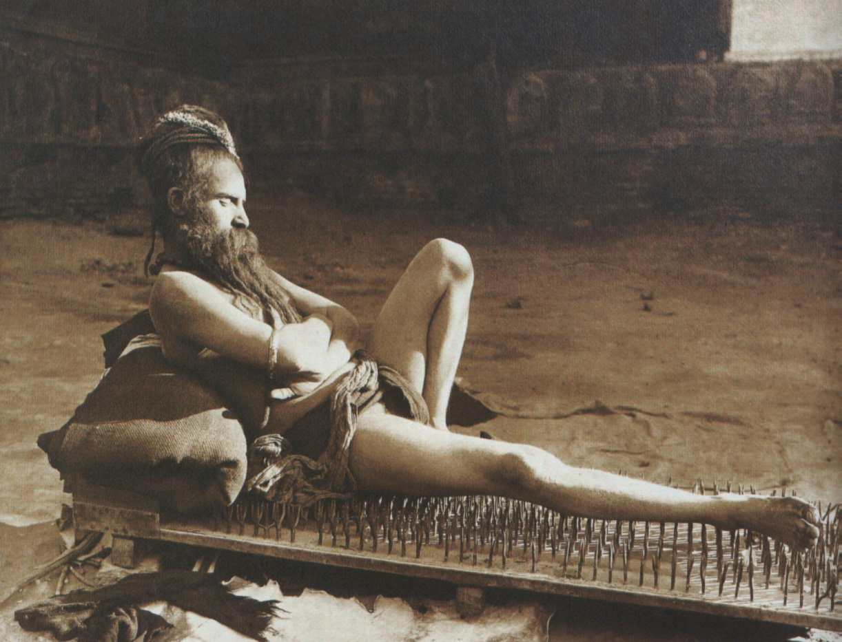 According to Herbert Ponting, who took this photograph in 1907, this is 'a fakir in Benares' (Varanasi), India. Strictly speaking, a fakir is a Muslim religious mendicant, but here Ponting is referring to a Hindu holy man. He is a yogi, or one who practises yoga and has allegedly perfected the control of mind over body to such an extent that he can withstand the physical pain of the bed of nails on which he is sitting (any individual could do the same, as the fakir's mass is spread evenly over the nails and they pose no real danger to him).